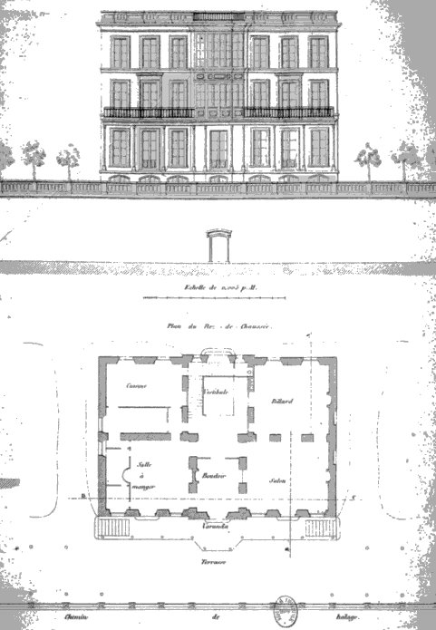 1855 architectural drawing of "72 rue Charles-Michels" house in Saint-Denis (Seine-Saint-Denis, France).